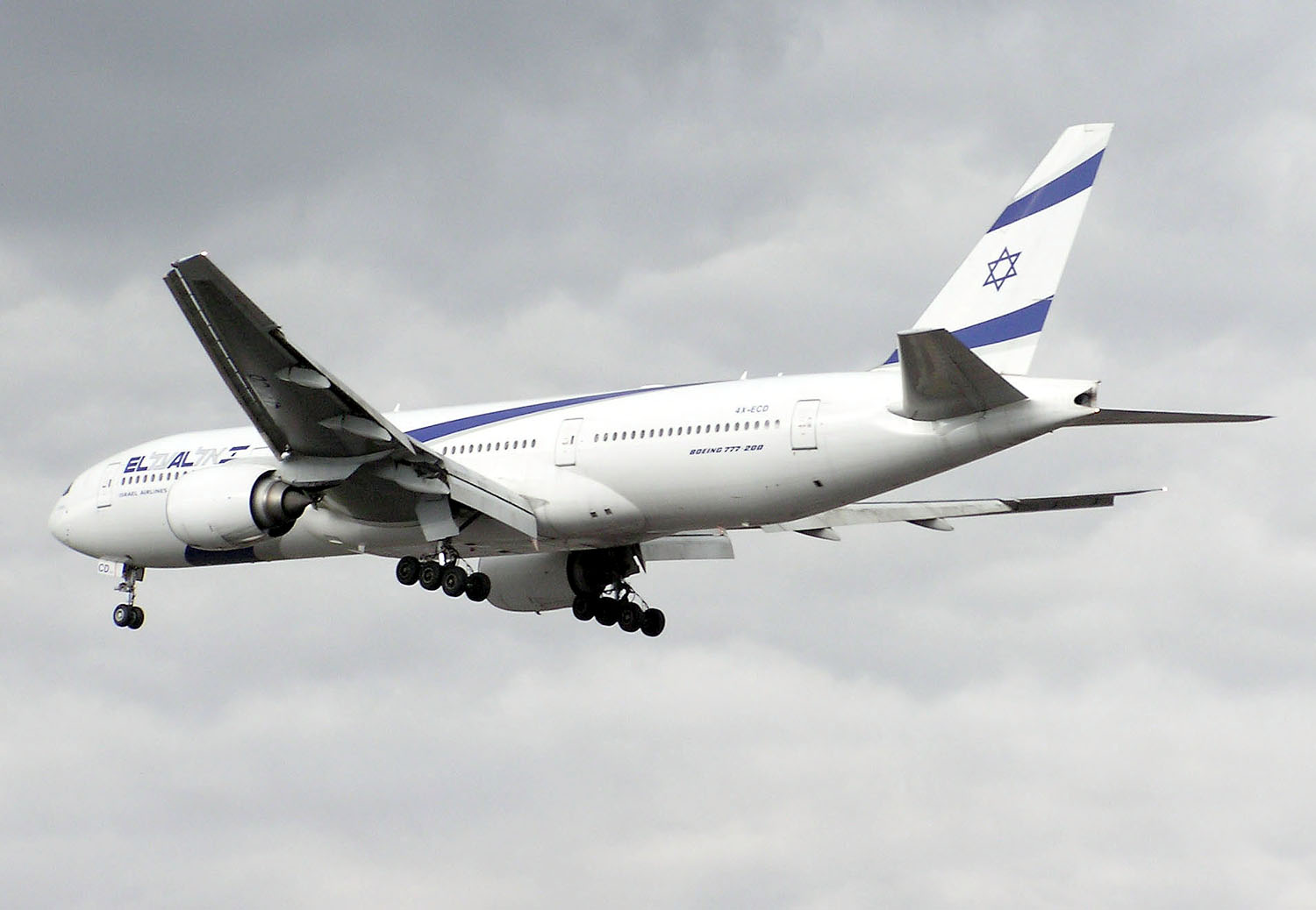 El Al Boeing 777-200 (4X-ECD) landing at Heathrow Airport, London.